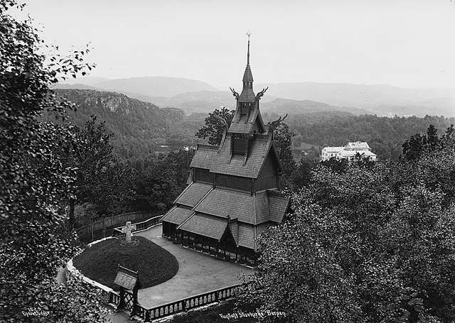 Fantoft stavkyrkje (Fantoft stave church, Fantoft, Bergen kommune, Hordaland fylke, Norway). Picture taken in the periode 1880 - 1890. On the 6 June 1992 the church was totally destroyed by arson. Reconstruction of an exact copy of the church was promptly initiated, and finally completed in 1997.